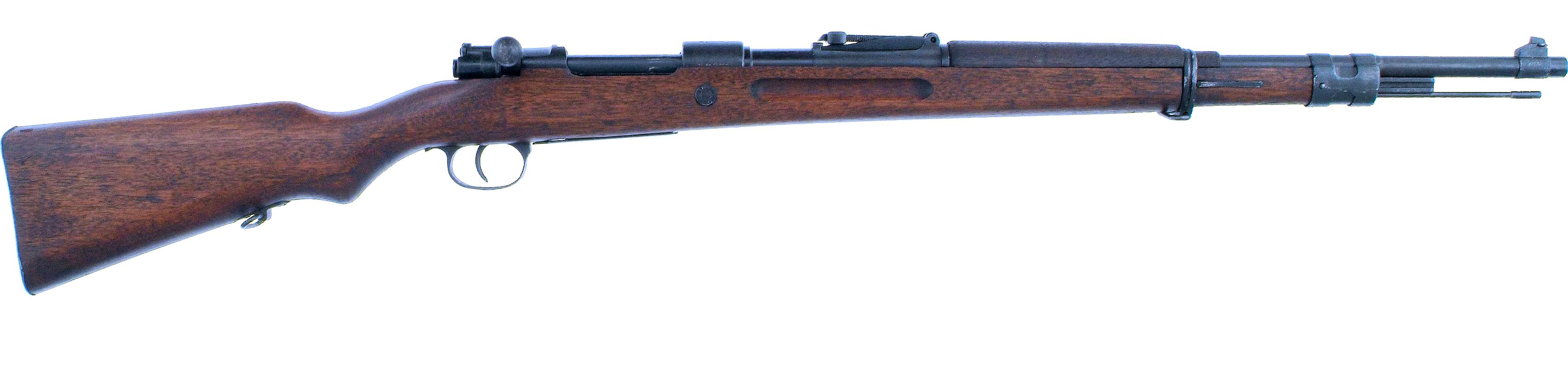 Kampfer's Chiang Kai-shek Rifle